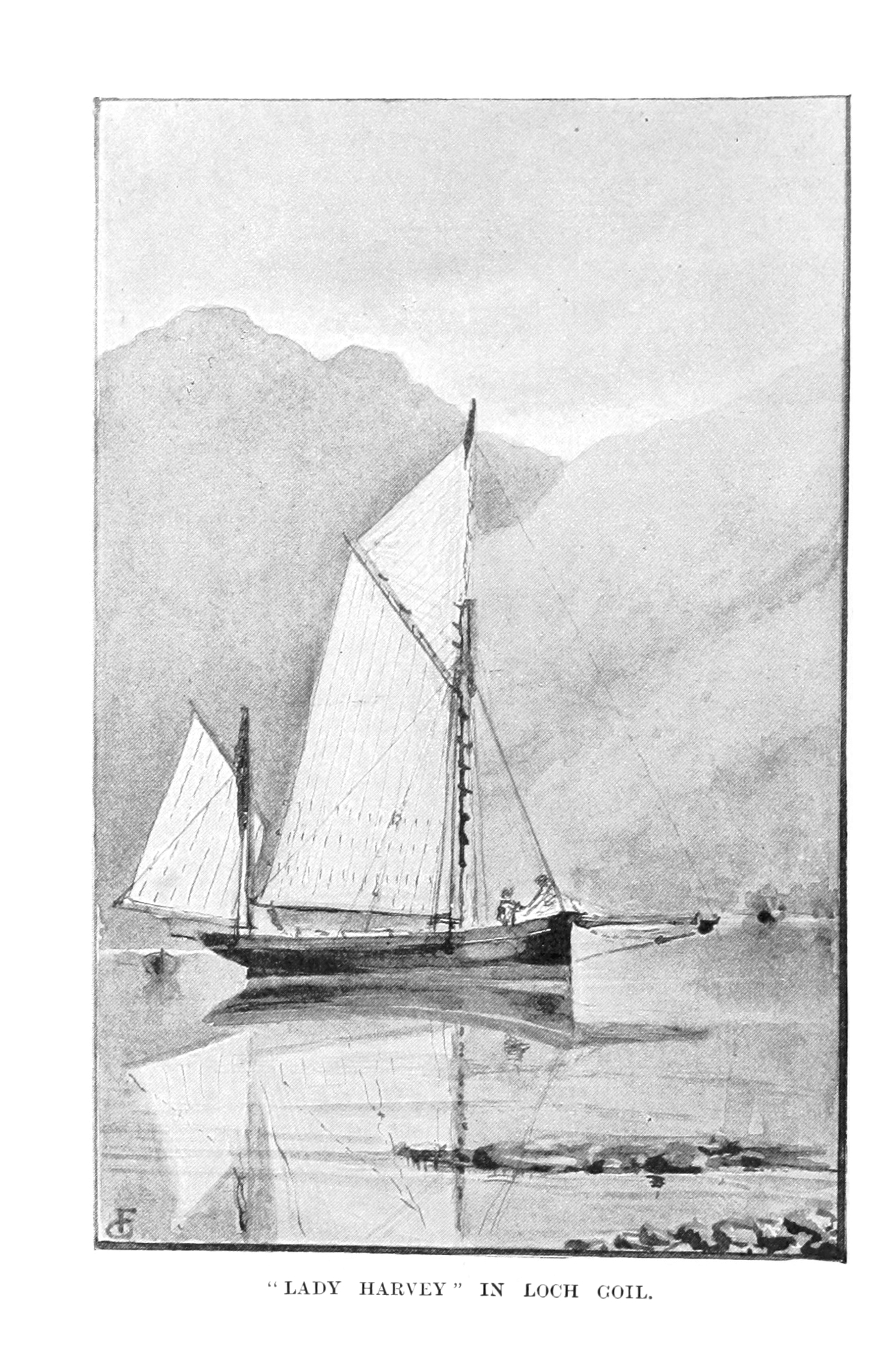 The yawl Lady Harvey on Loch Goil, Scotland Lady Harvey was the 44-foot Dover fishing lugger, built in 1867, which belonged to yachtsman and author Frank Cowper. Cowper circumnavigated Great Britain in Lady Harvey and described these voyages in his most famous work, the five-volume Sailing Tours.